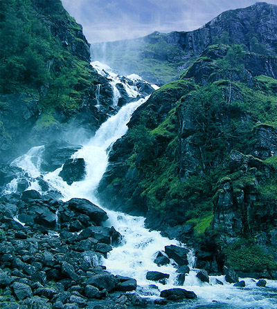 A part of Låtefossen